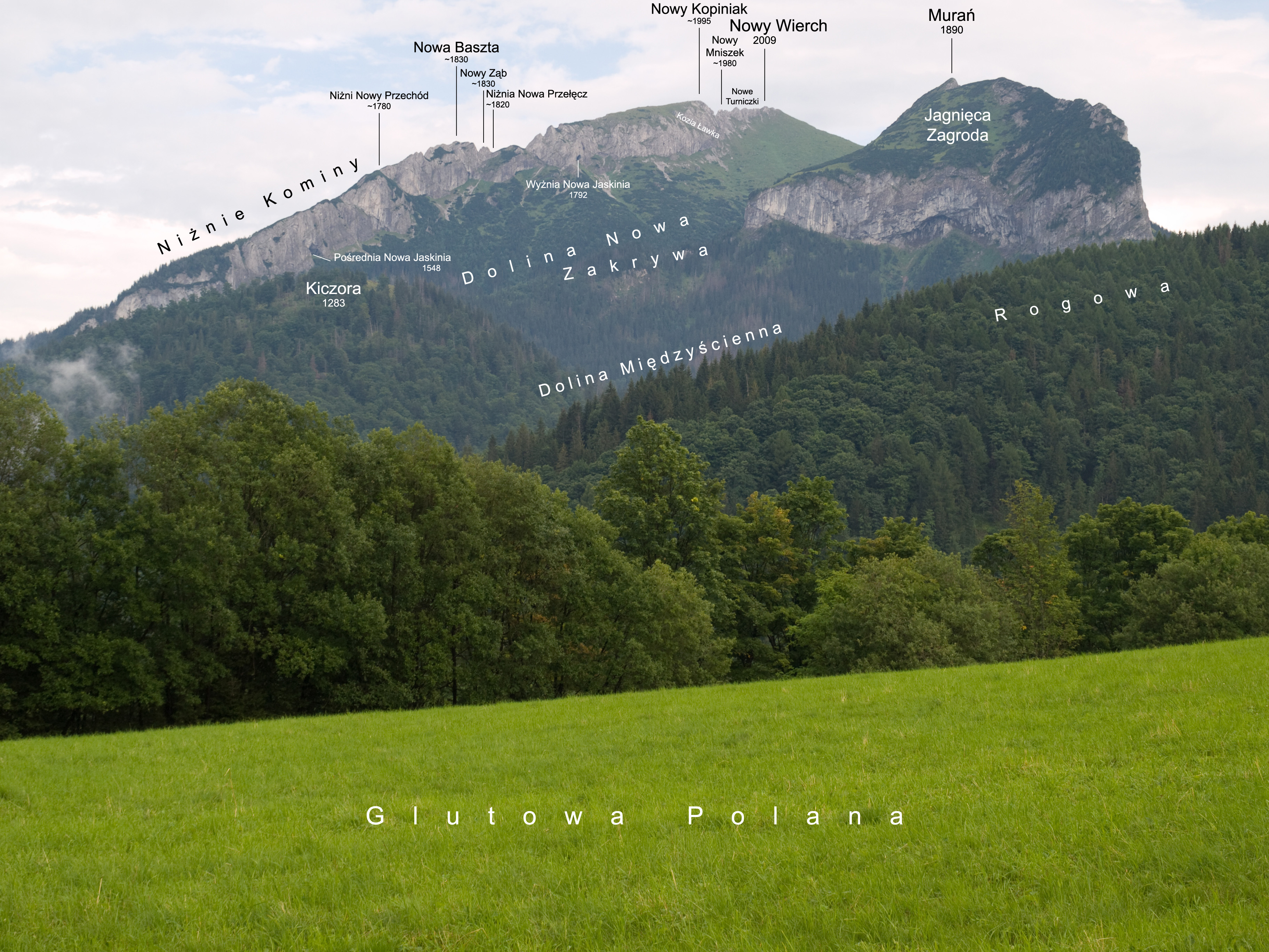 Nový vrch, its northern ridge – Komíny and Muraň. View from above Tatranská Javorina (Polish captions).